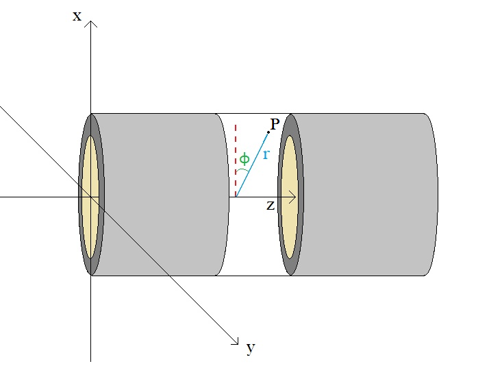 Coordinate representation